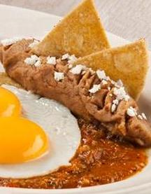 Traditional corn chips